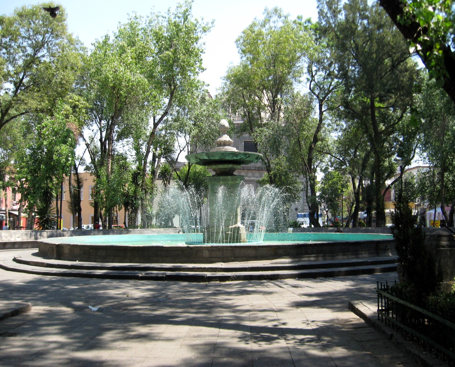 Fountain of Loreto Plaza in the historic center of Mexico City